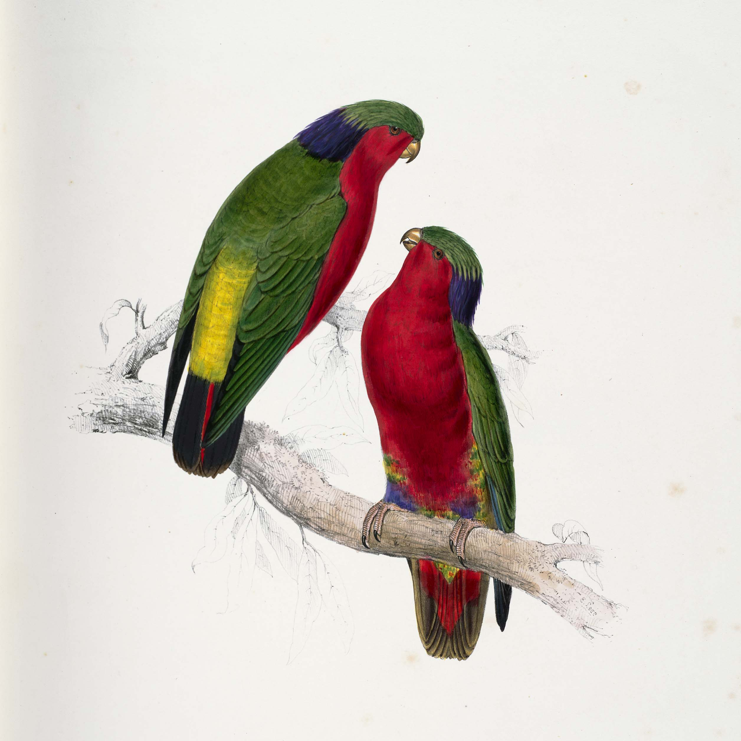 A painting of two Kuhl's Lorikeets by Edward Lear (1812 – 1888).